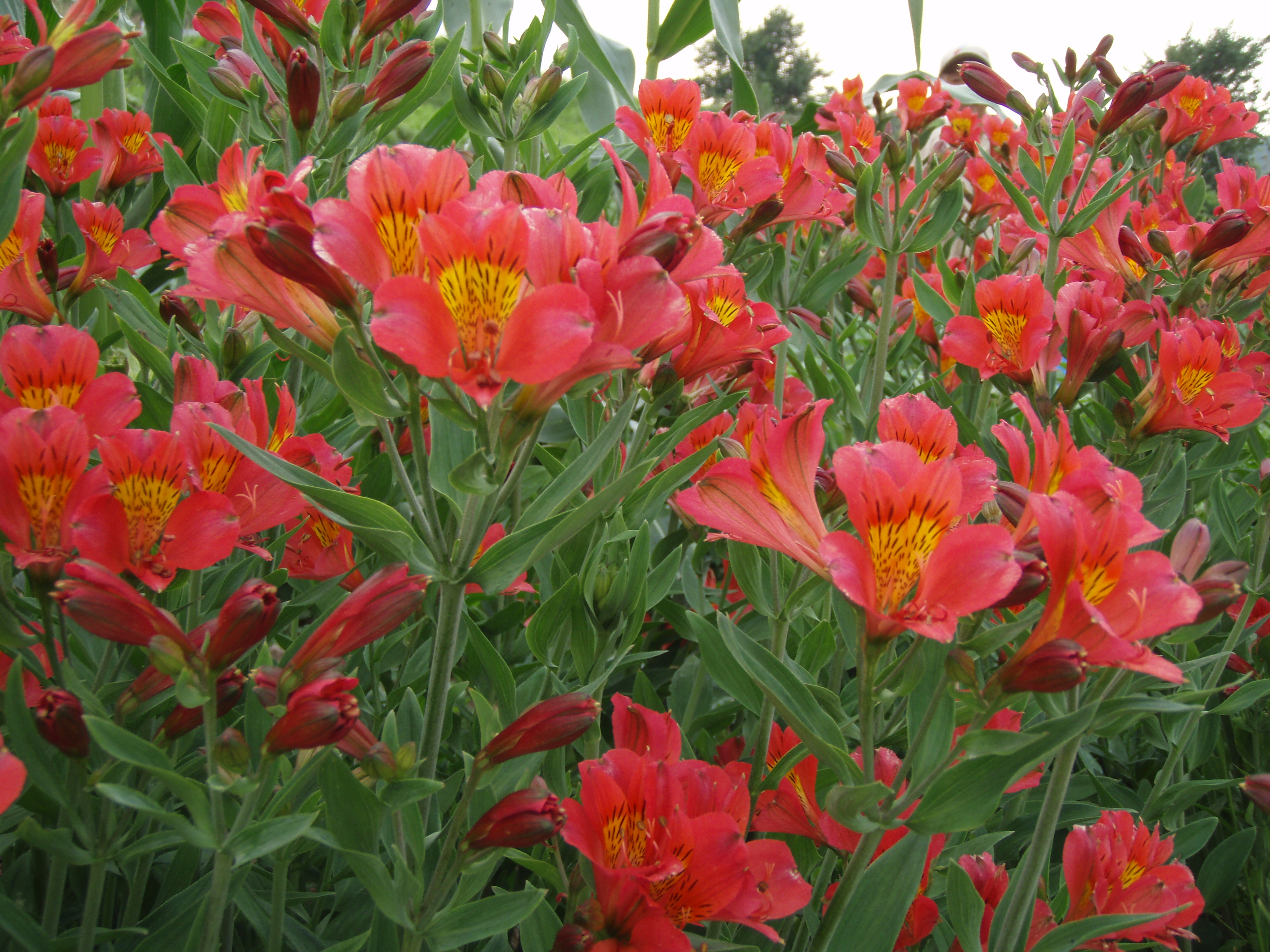 Alstroemeria